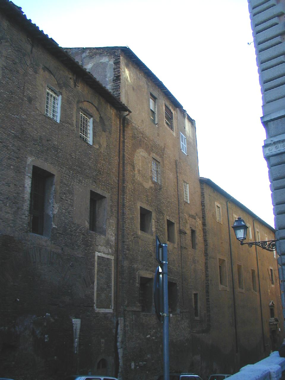 Roma, road in Selci